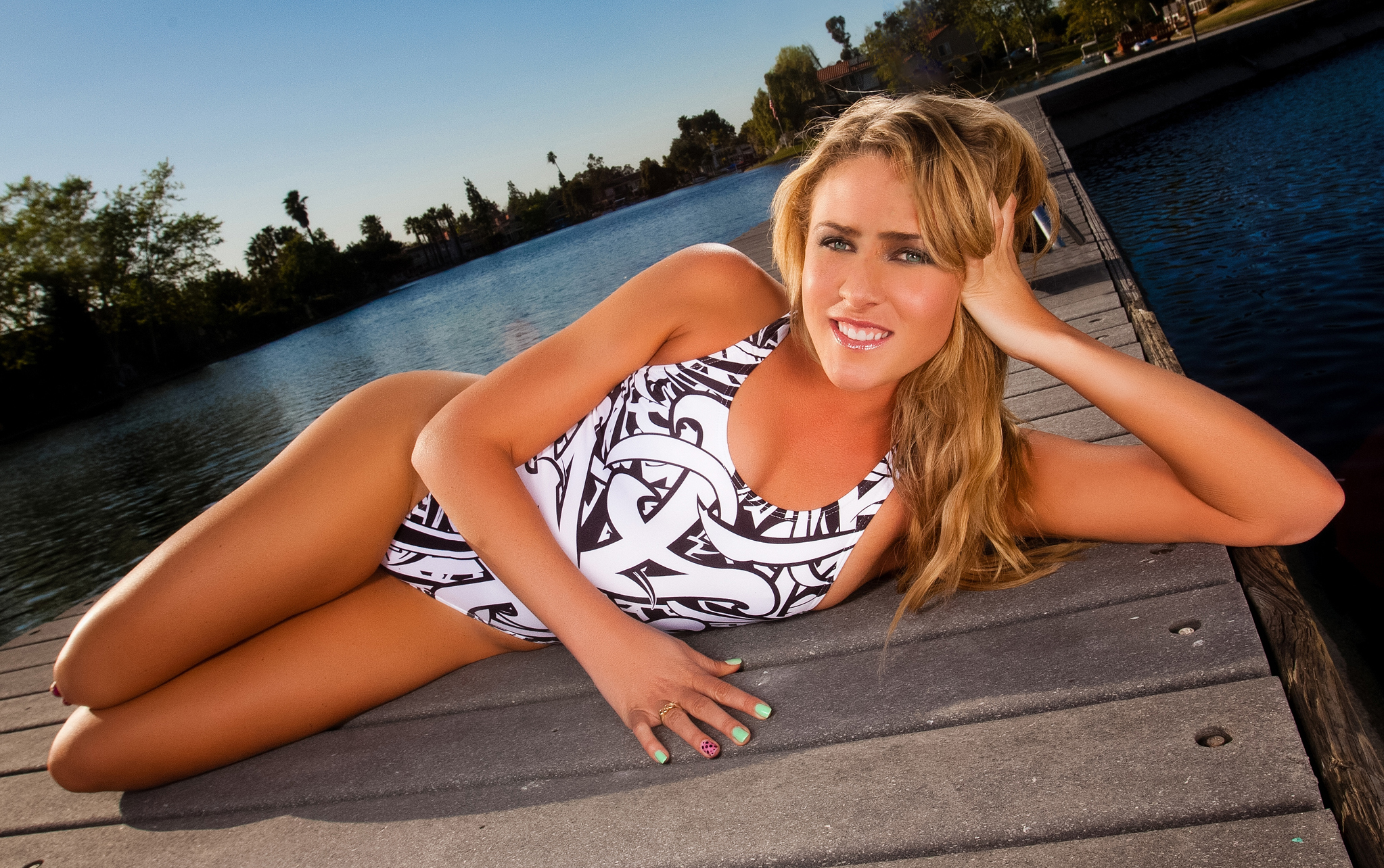 American Olympic swimmer Kaitlin Sandeno This is a retouched picture, which means that it has been digitally altered from its original version. Modifications: cropped. Modifications made by Brandmeister.